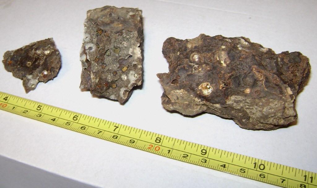 Samples of Hook Mountain Basalt taken from the base of the lowest flow. The rock is extremely vesicular, and many of the cavities are filled with secondary minerals (amygdaloidal texture). These samples were retrieved from the northernmost section of Third Watchung Mountain, along the border of Wayne and Pompton Lakes in New Jersey.